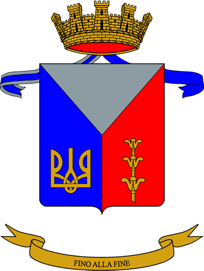 Coat of Arms of the 32° (Alpini) Engineer Regiment; Italian Army.